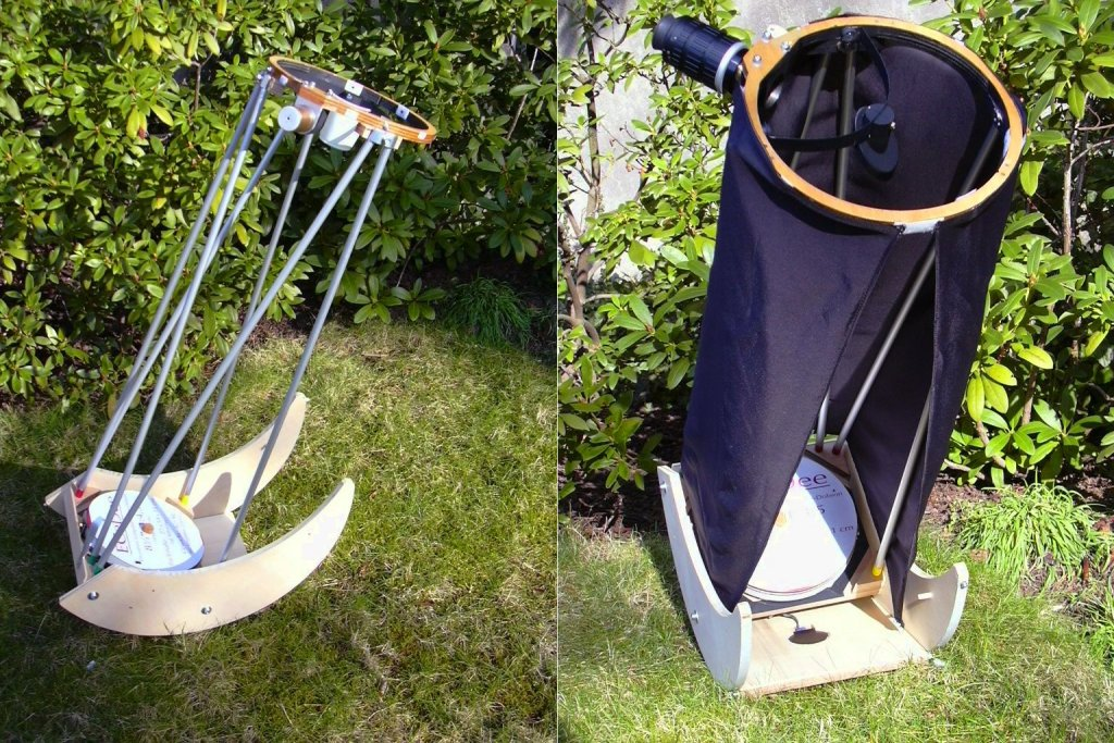 Newtonian telescope - homemade Dobsonian - mirror dia: 8 3/4" (22.2 cm). Telescope made by the author.